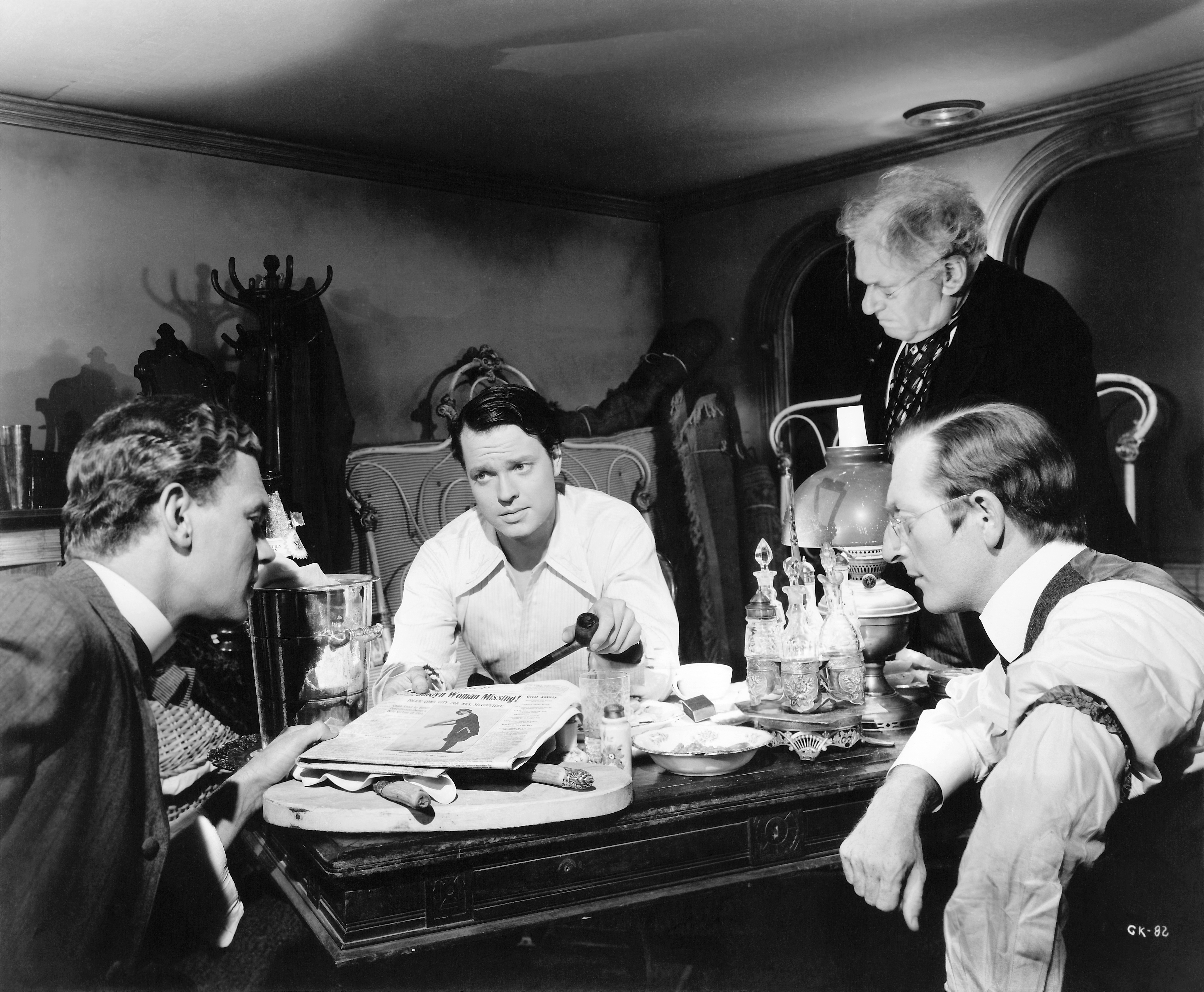 Promotional still for the 1941 film, Citizen Kane